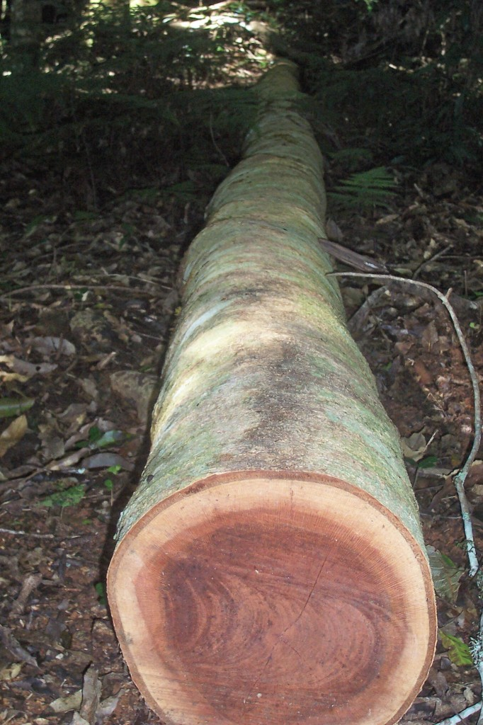 cut log_-_Werrikimbe_National_Park, probably Acradenia euodiiformis